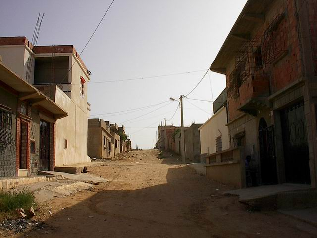 A street of Stidia, Algeria. Photo taken on July 19th, 2005, by François Noël.